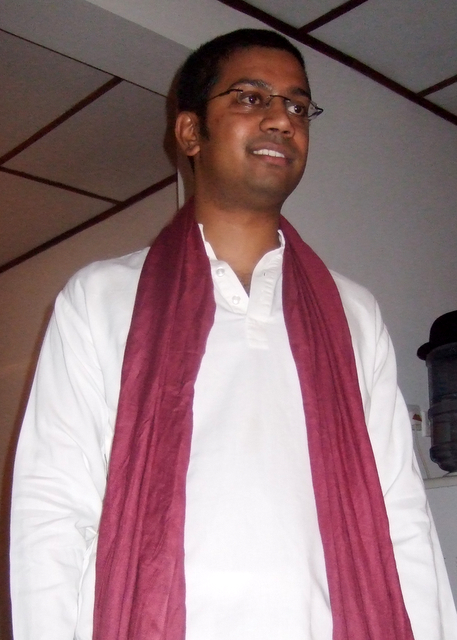 Sinhalese Man in National Dress.